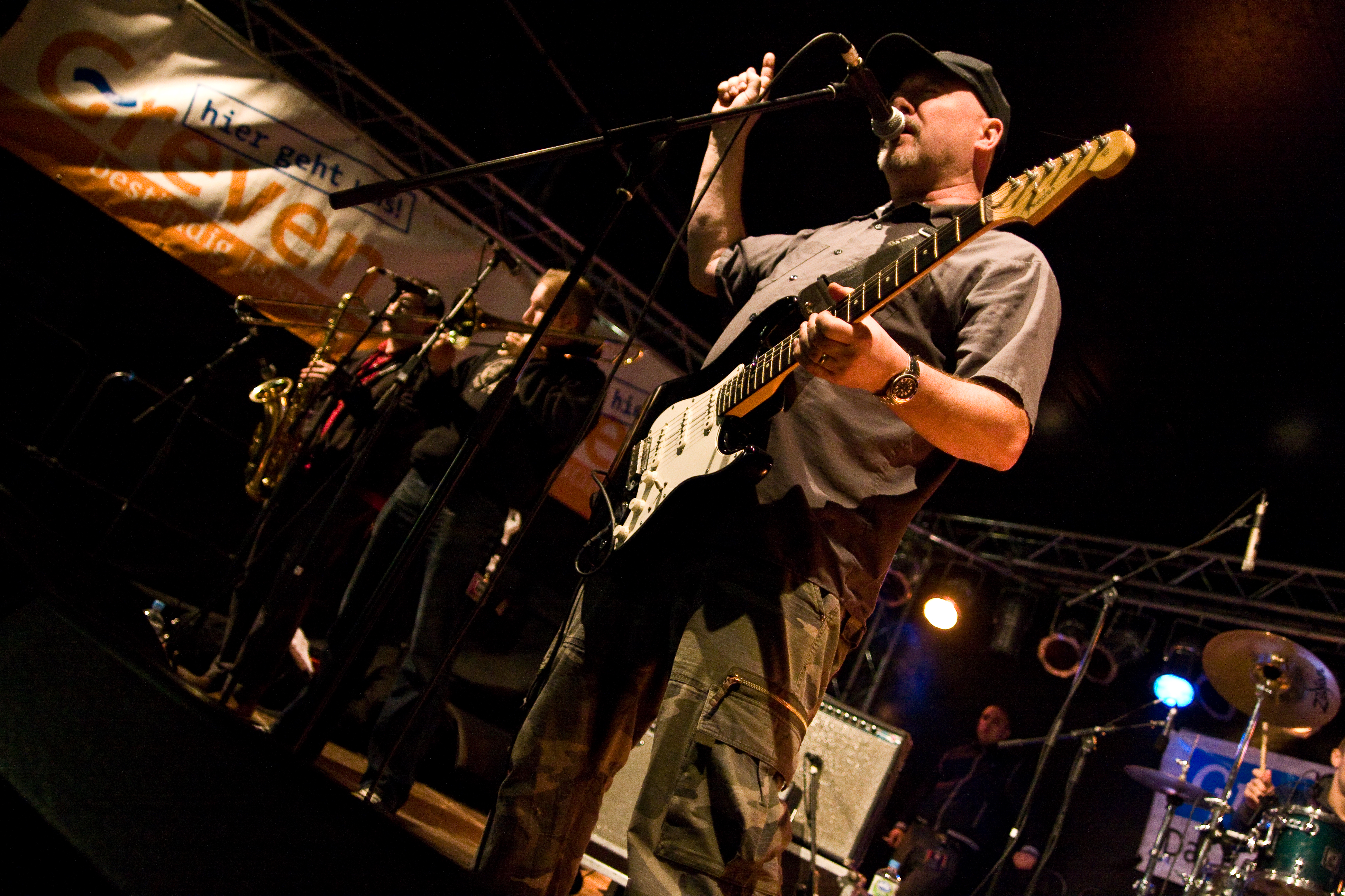 Live at the Cityfest Greven, 09/20/08